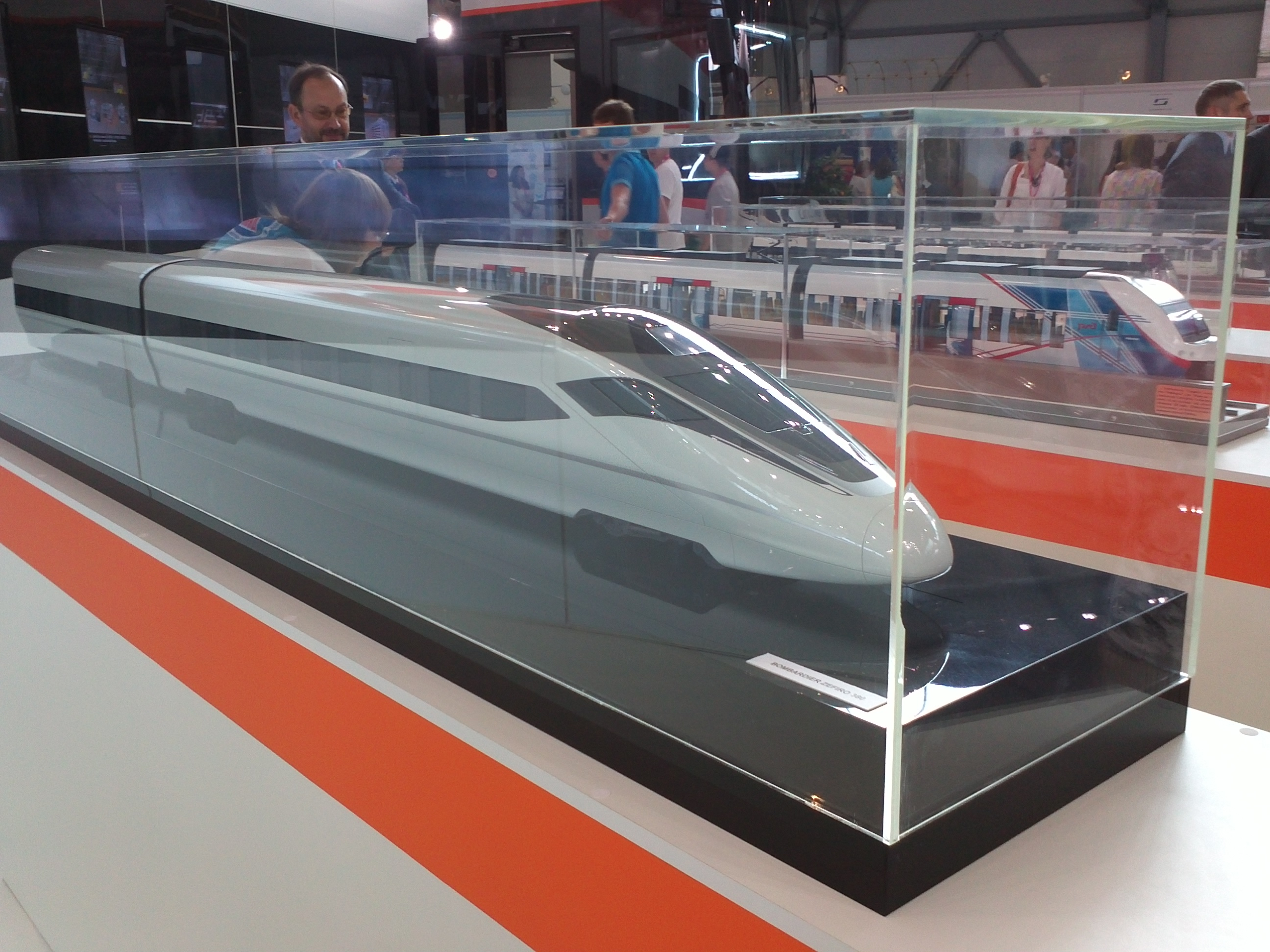 Future Uralvagonzavod train models at Innoprom exhibit. The front one is Bombardier Zefiro 280, the next is Bombardier Spacium